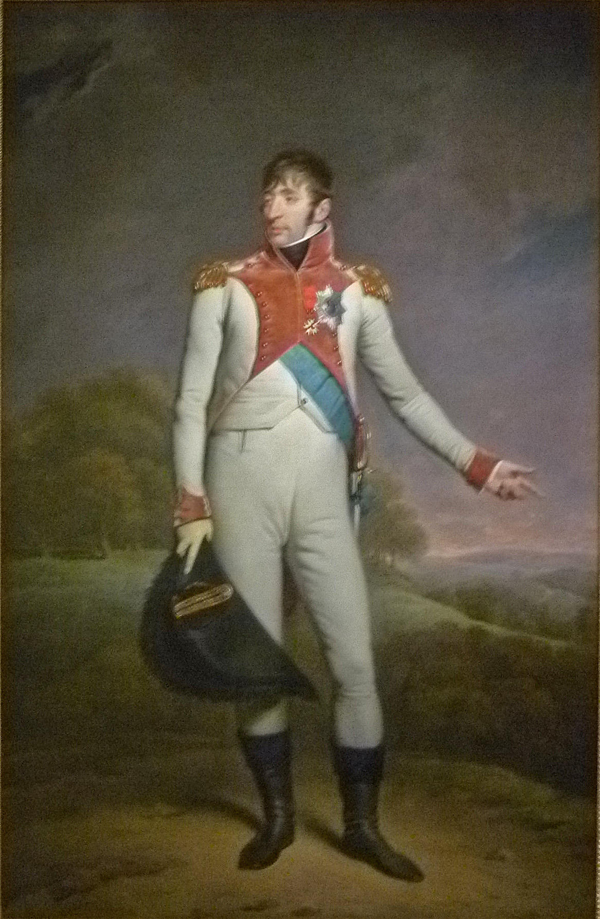 "Portrait of Louis Napoleon, King of Holland"